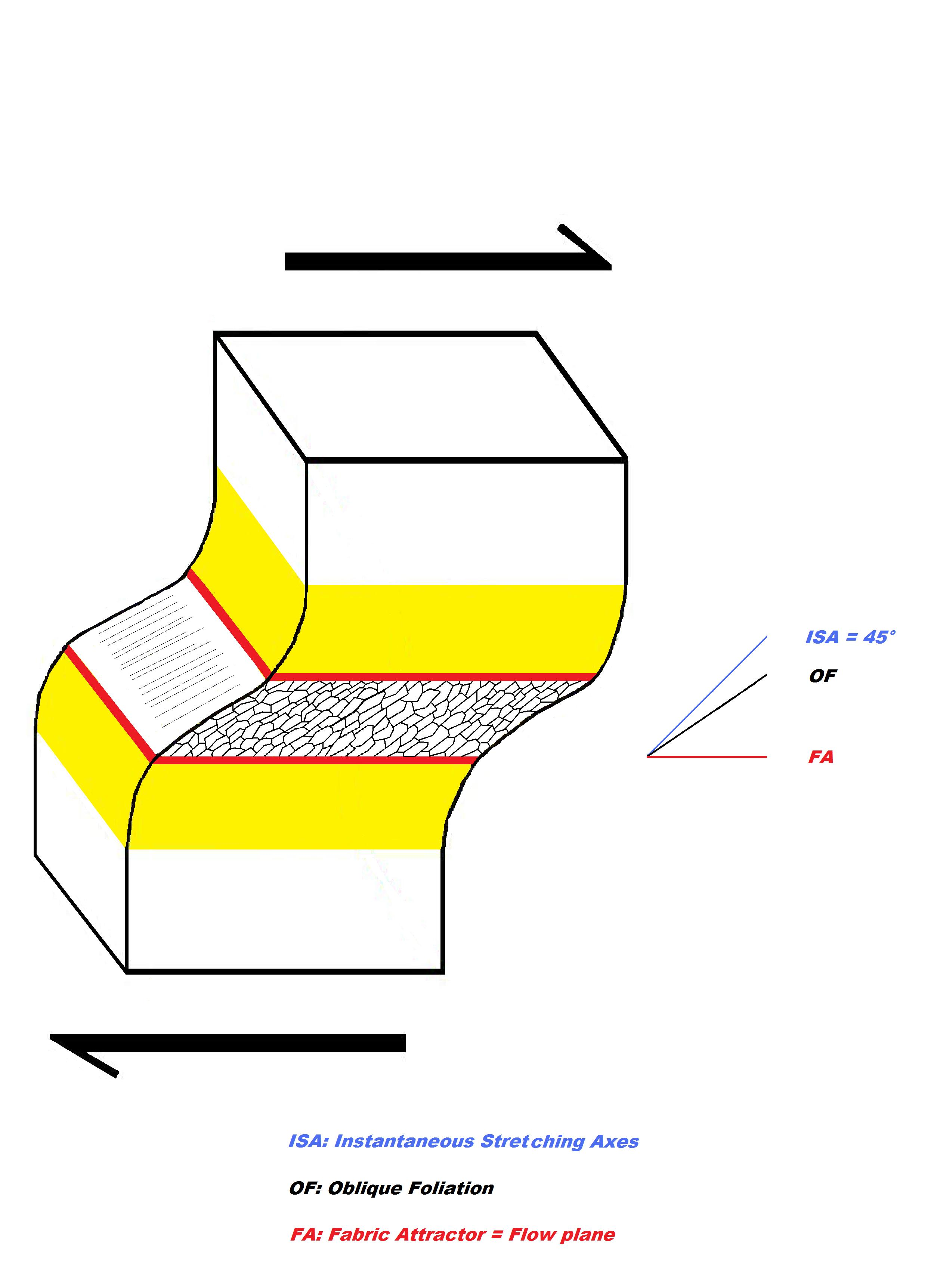 Diagram of a quartz-rich layer developing an oblique foliation in a dextral shear zone. The geometrical relationships between oblique foliation, fabric attractor (FA) and instantaneous stretching axes (ISA) are outlined.